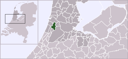 Location of Haarlem